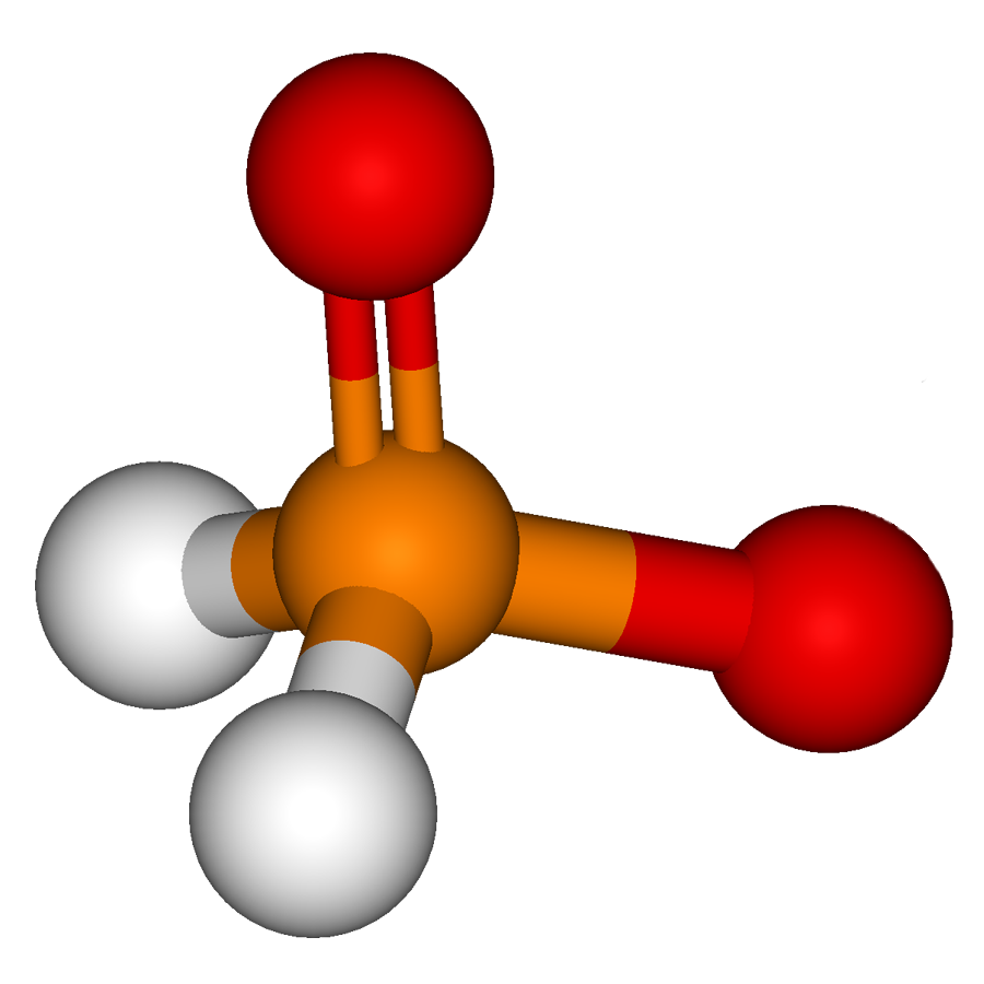 Hypophosphite-ion molecule model